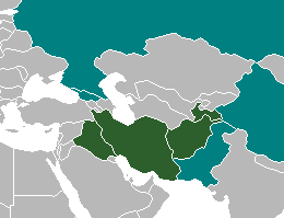 Dark green: countries where Iranian languages are official. Teal: regional co-official/de facto status.